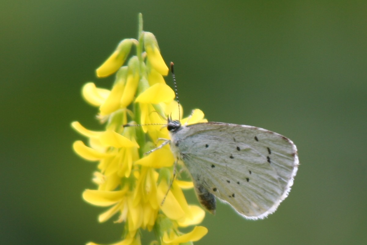 A holly blue butterfly on Yellow Sweet Clover (Melilotus officinalis), photographed in Weinsberg